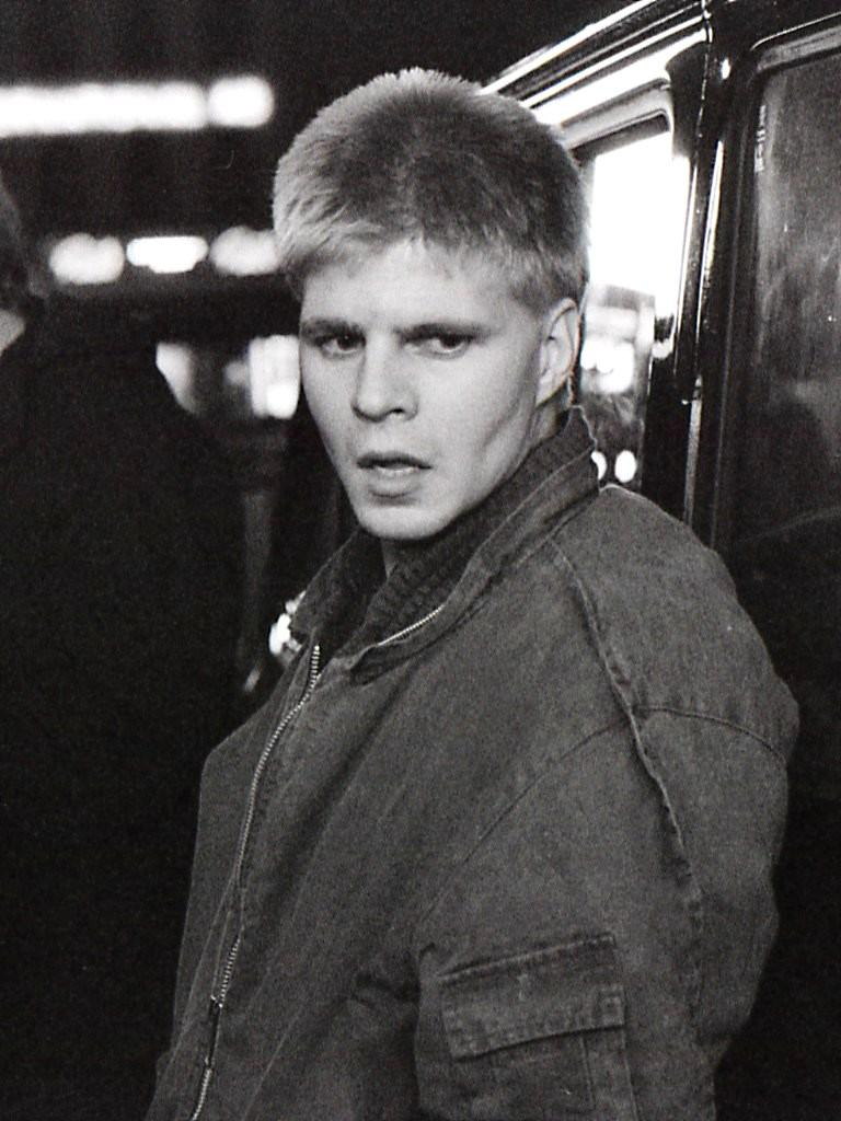 Kåre Mölder, aka 'Cory Molder', on location for the movie "The Inside Man"